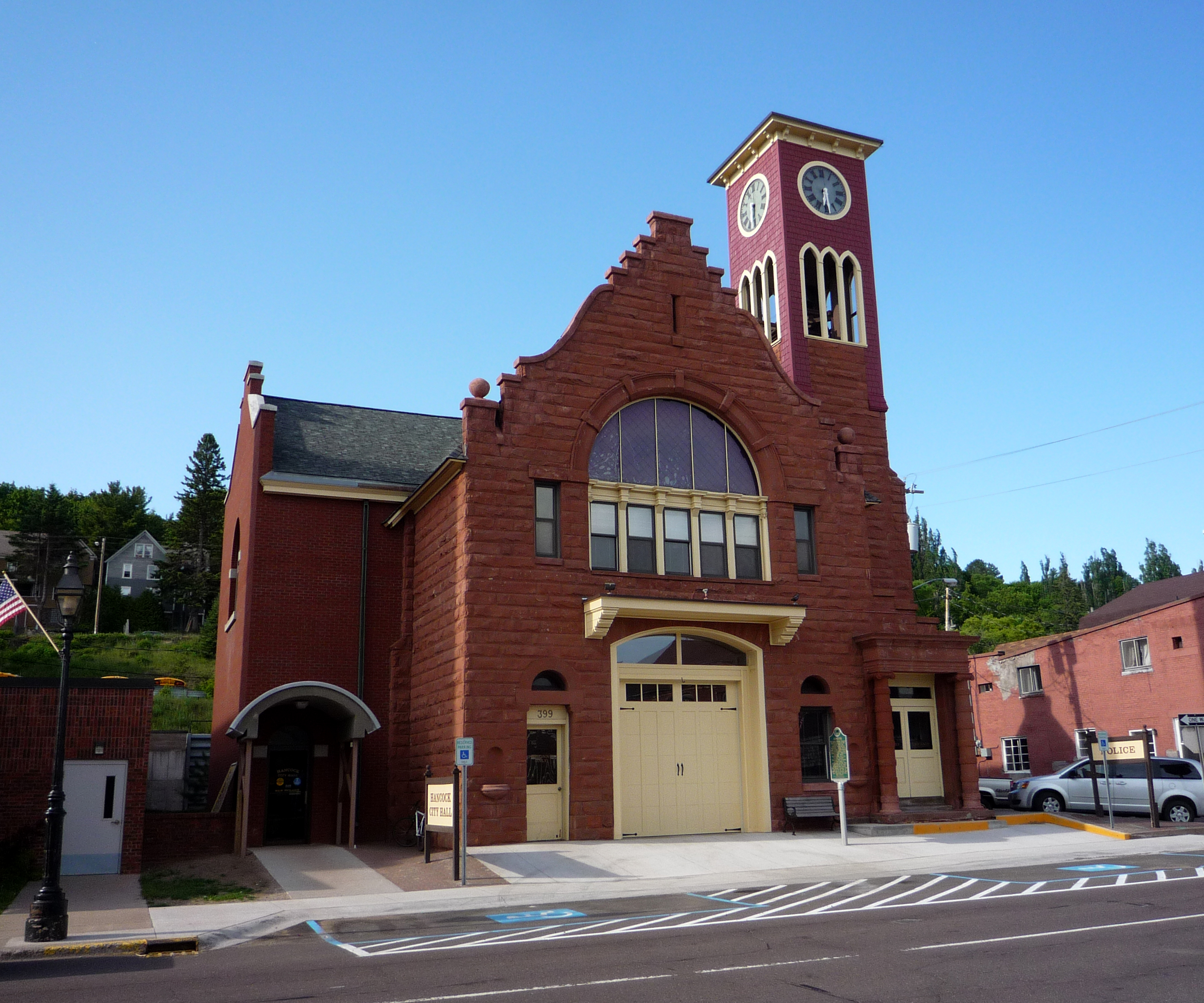 City Hall of Hancock, Michigan. The building is a Registered Michigan State Historic Site and on the National Register of Historic Places.